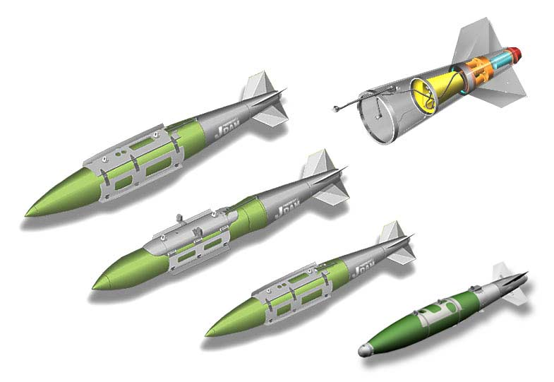 JDAM kits fitted to unguided General Purpose Bombs. Originally a USAF image, downloaded hi-res image from a defense industry journal.